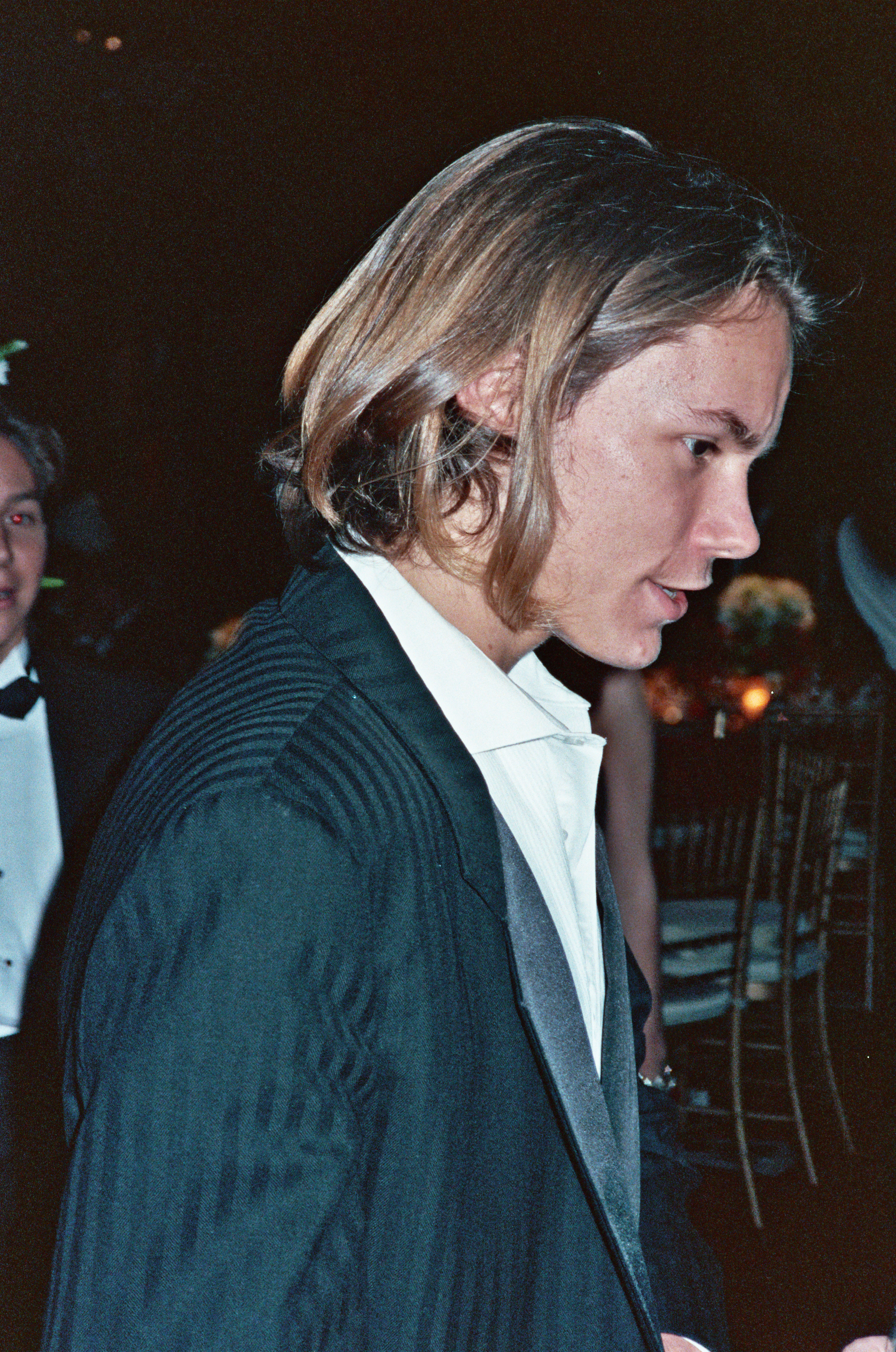 River Phoenix (August 23, 1970 – October 31, 1993) at the 61st Academy Awards, March 29, 1989 - Governor's Ball. This is a high resolution scan of the original 35MM film negative - 256 pixels/inch. Permission granted to copy, publish or post but please credit "photo by Alan Light" if you can NOTE: Permission granted to copy, publish, broadcast or post any of my photos, but please credit "photo by Alan Light" if you can. Thanks.